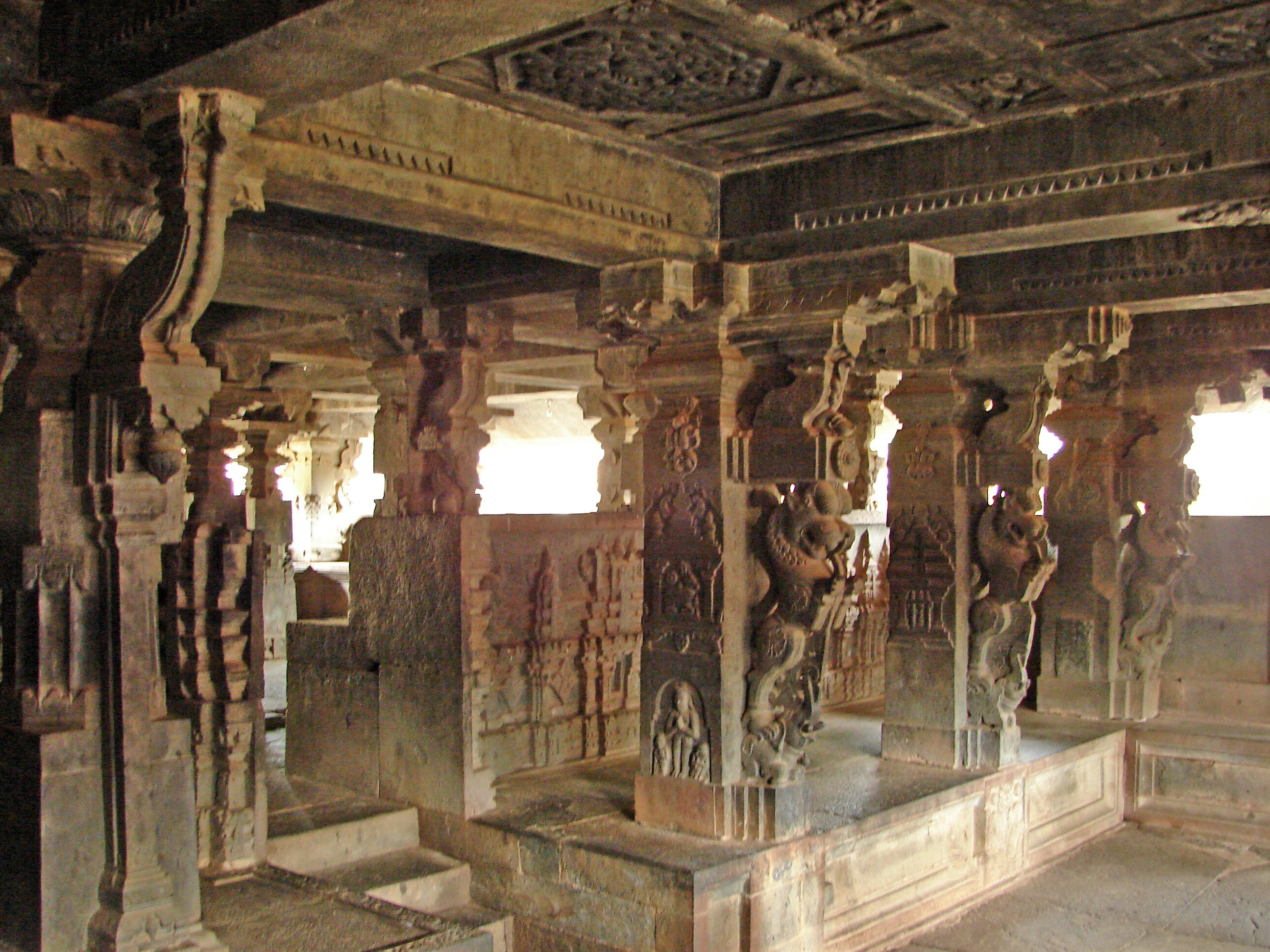 at the Rameshwara temple in Keladi, Shimoga district, Karnataka, India in July 2006